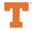 Block burnt-orange T, a primary trademark of University of Texas at Austin